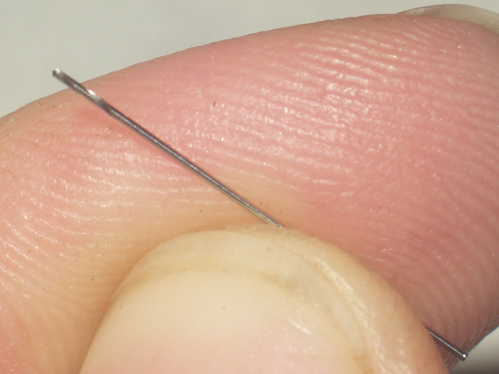 A #80 drill bit (diameter: .0135 inch = .3429 mm)